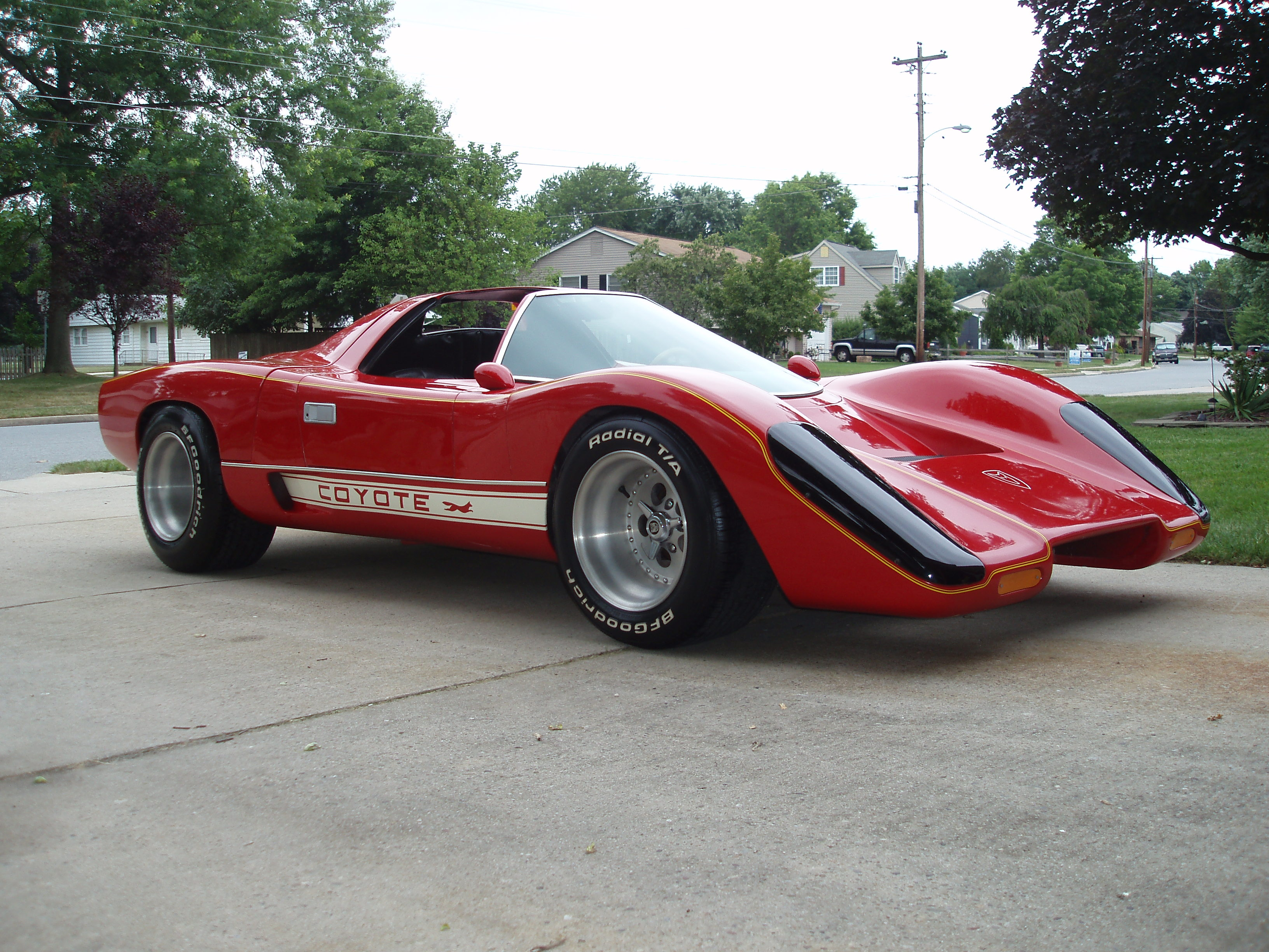 Season 1 Coyote at home in South Jersey.